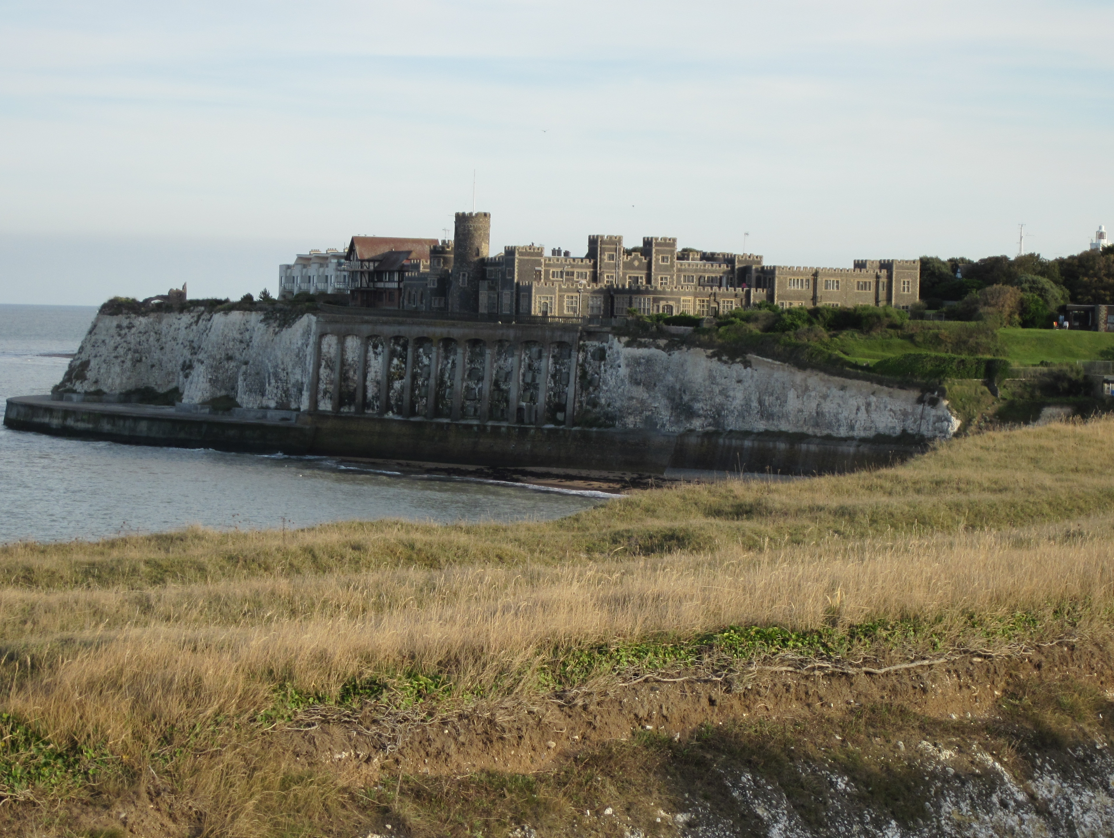 Kingsgate Castle between Margate and Broadstairs in Kent, UK. The North Foreland lighthouse can be seen on the far right of the photo. Taken from near the watchtower across Kingsgate Bay at sunset, so the light wasn't brilliant.